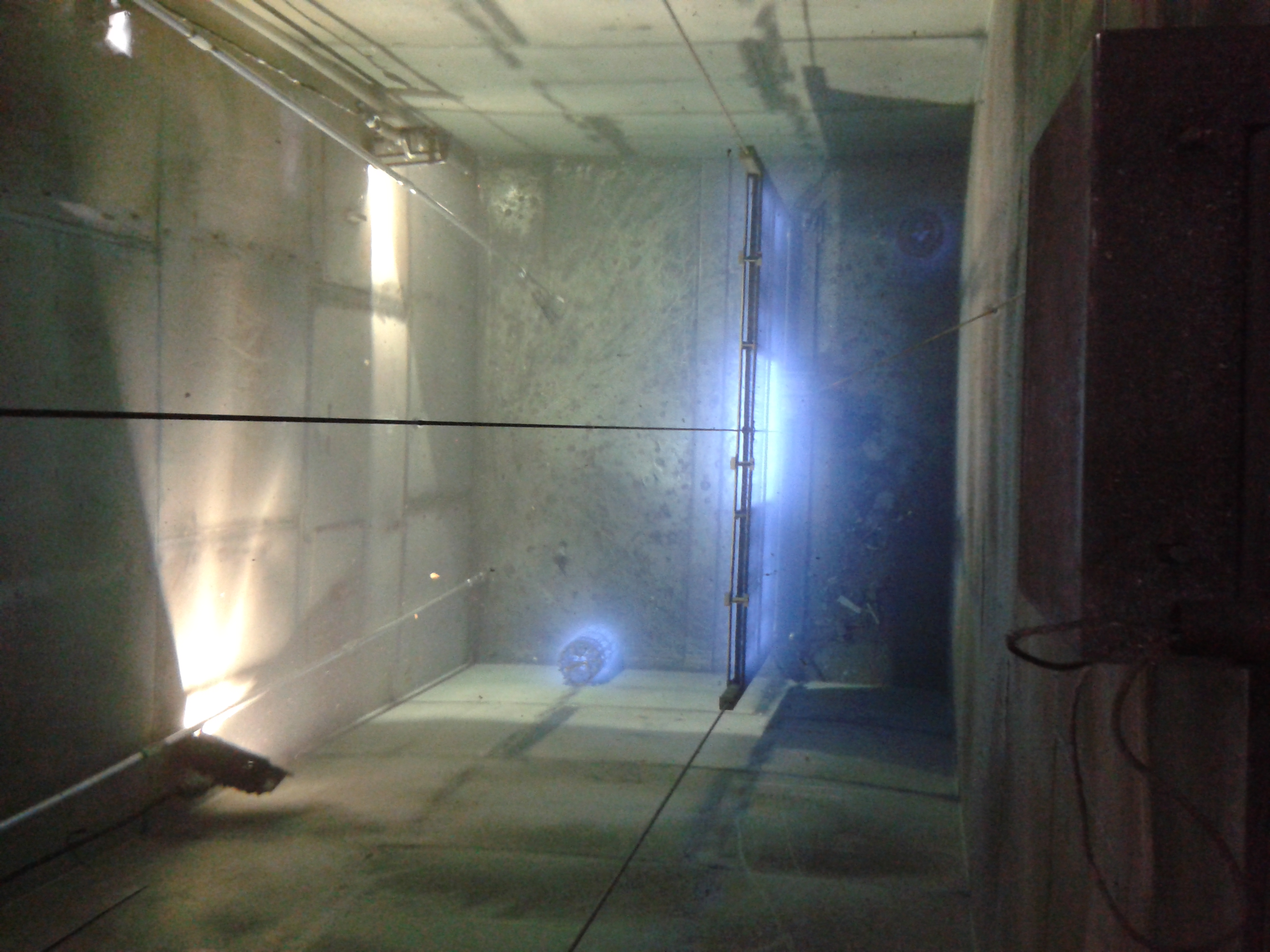 cobalt 60 food irradiation equipment